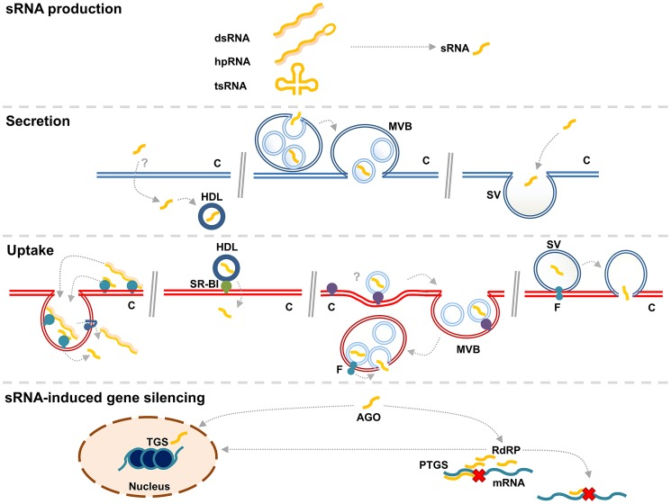 sRNA is produced by Dicing of larger dsRNA molecules in the transmitting cell. On the left, non-vesicular dsRNA and sRNA are secreted by unknown mechanisms. Uptake of this RNA is depicted in a manner that resembles SID-1/SID-2 mediated uptake [39]. DsRNA is bound by a receptor and internalized, after which it is taken up into the cytosol by a transmembrane channel, such as SID-1. In the middle, transfer of sRNAs through MVB-mediated exosomes is depicted. A model for loading of sRNA into intraluminal vesicles of MVBs (MVB) is suggested [49]. These vesicles are released in the intercellular space as exosomes after fusion of MVBs with the plasma membrane (PM). Exosomes are taken up by endocytosis into the receiving cell. It is unknown how sRNA is released into the cytosol, but one could envisage a fusogenic protein (F) to be involved, which facilitates fusion of the endosomal and exosomal membranes. On the right, transfer of sRNA in shedding vesicles (SV), which are generated directly from the PM, is depicted. How RNA is loaded into SV is unknown. The recipient cell takes up the sRNA after fusion of the SV with the PM in a process that requires fusogenic proteins. SVs might be taken up in an endocytosis-dependent manner and exosomes might be taken up in a membrane fusion event. In the cytosol of the recipient cell, the sRNA is recognized by the RNAi machinery and triggers gene silencing, either through post-transcriptional gene silencing (PTGS) or transcriptional gene silencing (TGS). During PTGS, amplification of the sRNA signal is provided by RNA-dependent RNA polymerases (RdRP), which give rise to secondary sRNAs that can target the same or other transcripts.